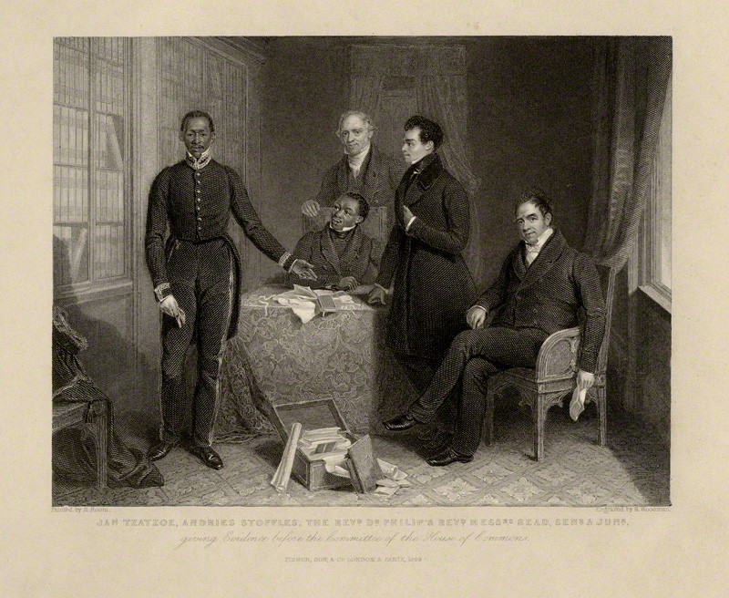 Engraving of Jan Tzatzoe, Andries Stoffles, The Revd Dr Philip & Revd Messrs Read Senr & Junr Giving Evidence before the Committee of the House of Commons - representatives from South Africa